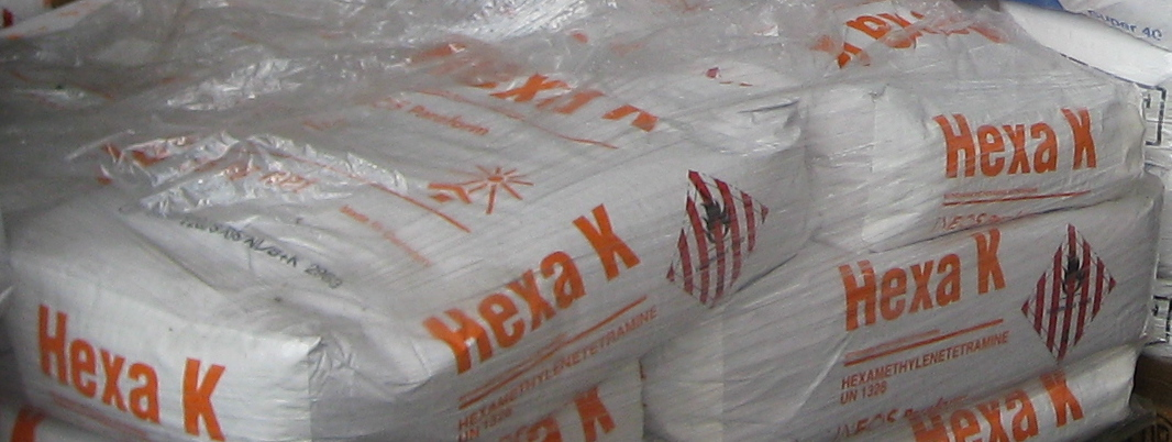 Hexa K by Ineos Paraform: hexamethylenetetramine. Supplied in powder, packaged in paper bag (25 kg net wt) and delivered on pallets.